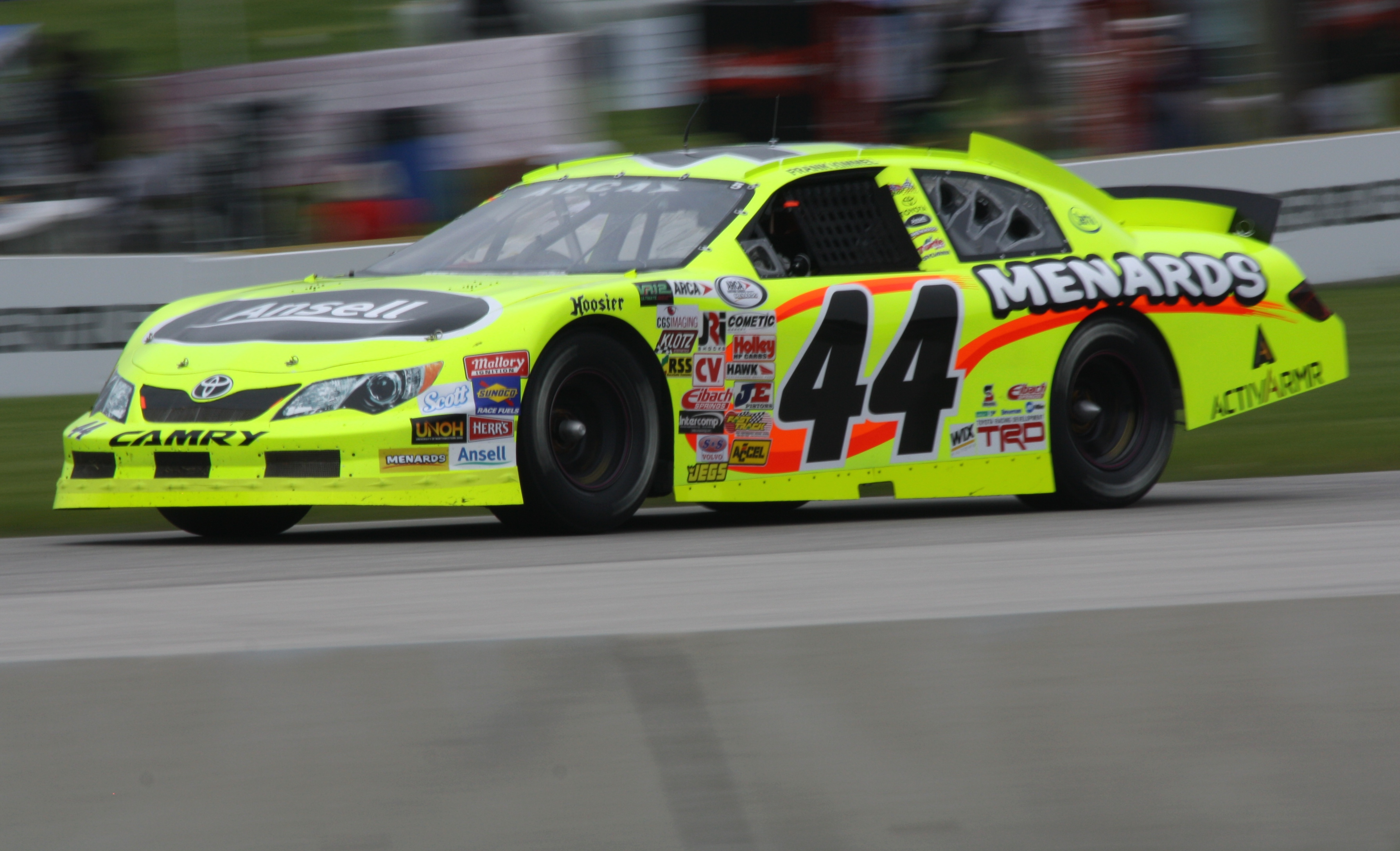 The ARCA Racing Series car of Frank Kimmel at the 2013 Scott 160 race at Road America. He was the series' champion that year.